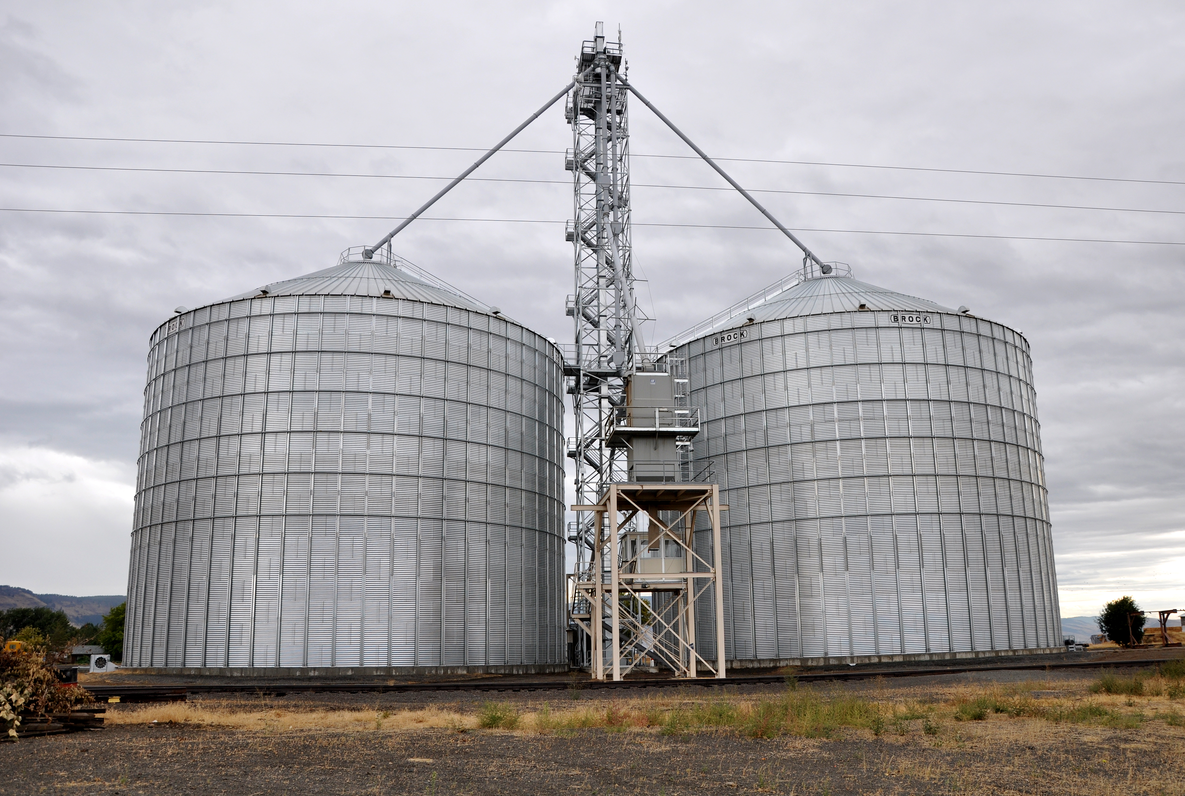 Grain elevator at Alicel in the U.S. state of Oregon.